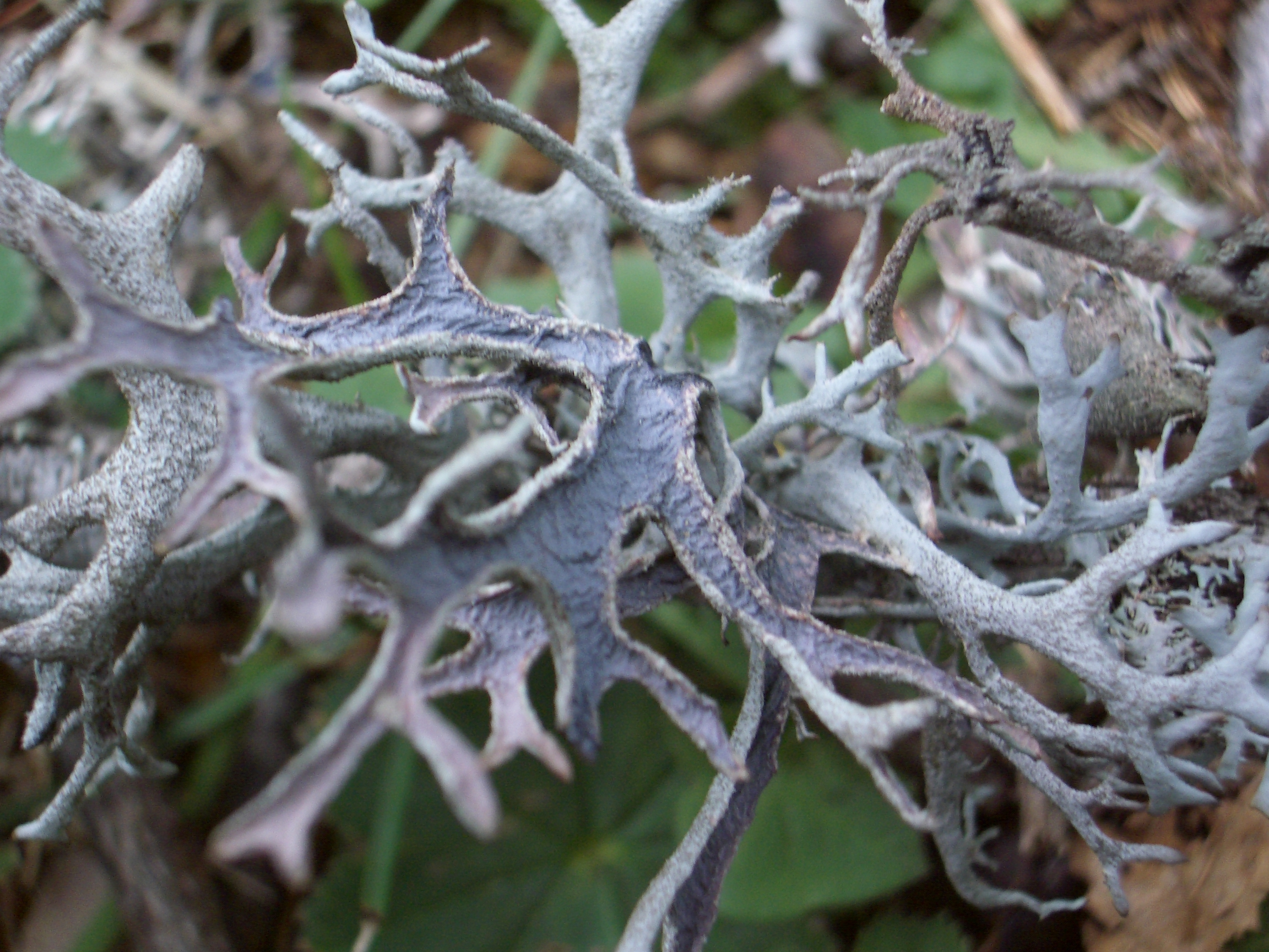 Taken near Kranjska Gora, Julian Alps, Slovenia in Summer 2004. tree is unidentified lichen is Pseudevernia furfuracea.